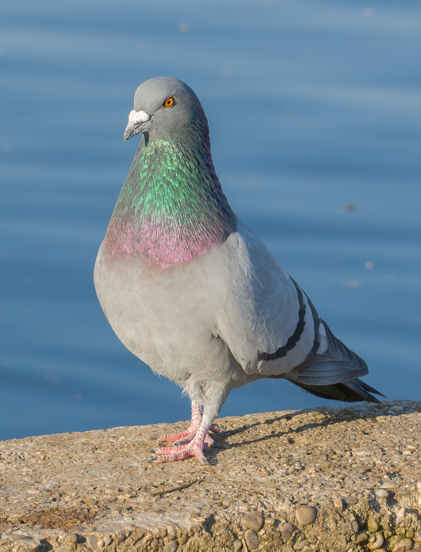 Rock Pigeon (Columba livia), Nymphenburg Palace, Munich, Germany